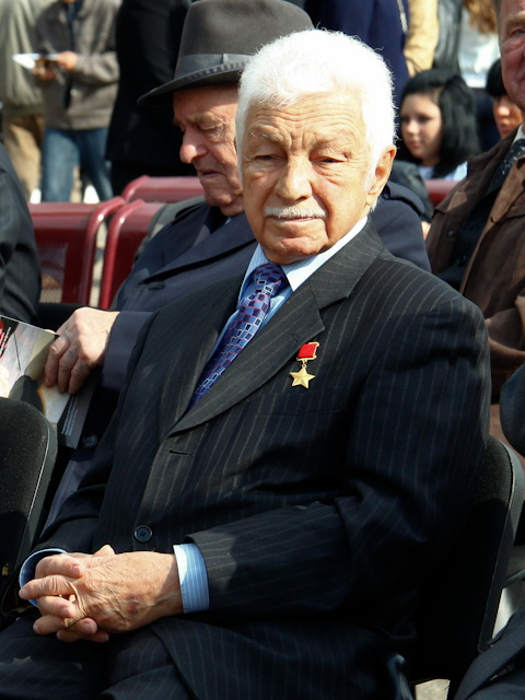 Stepan Mikoyan. Moscow, Victory Park on Poklonnaya Hill. Commemoration of the Second World War.